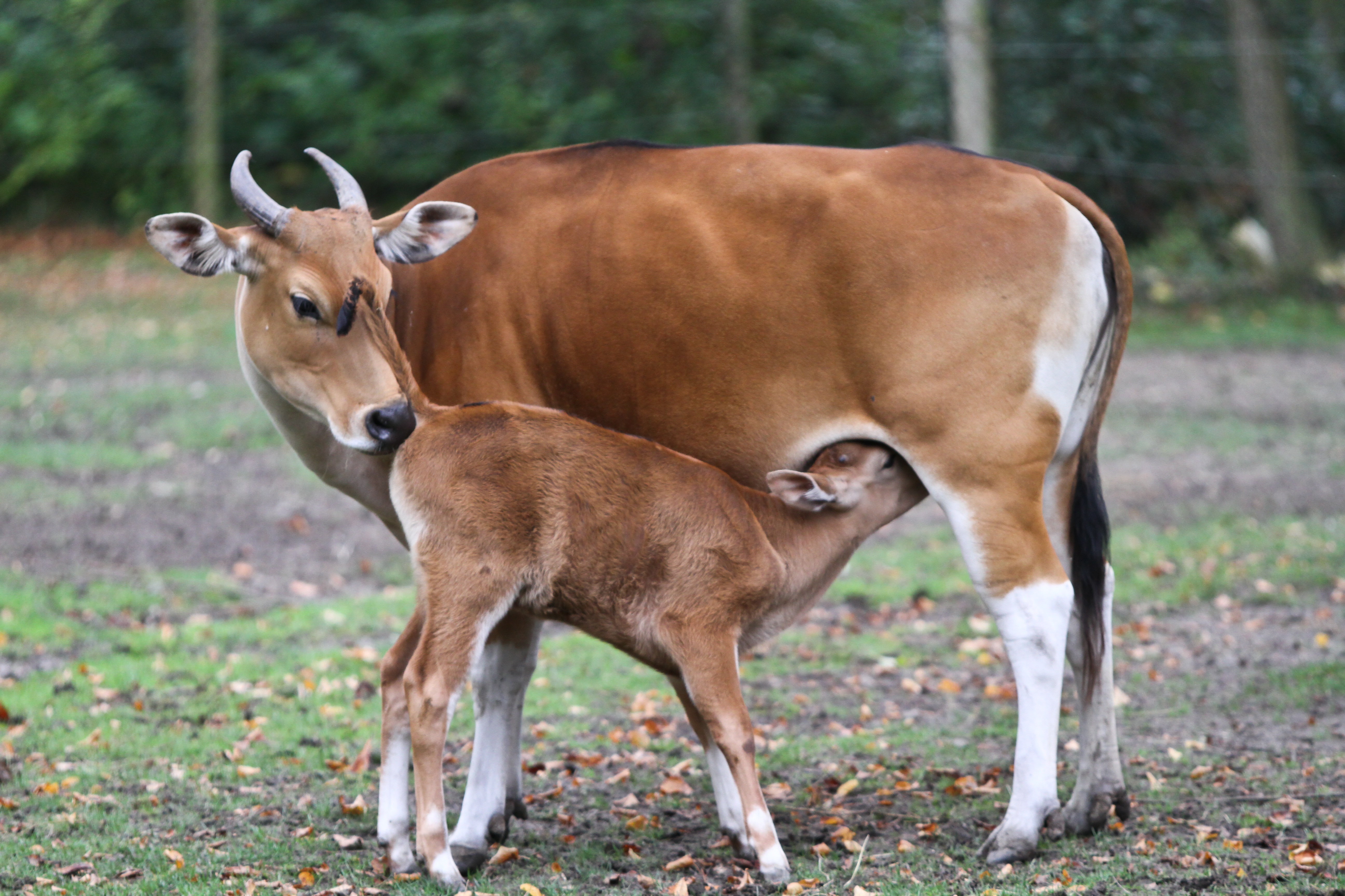 A female Banteng (Bos javanicus) nurses her calf.